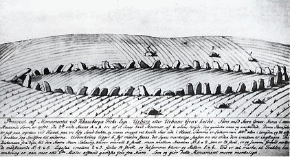 Sketch of Ale Stones from before the reconstruction.